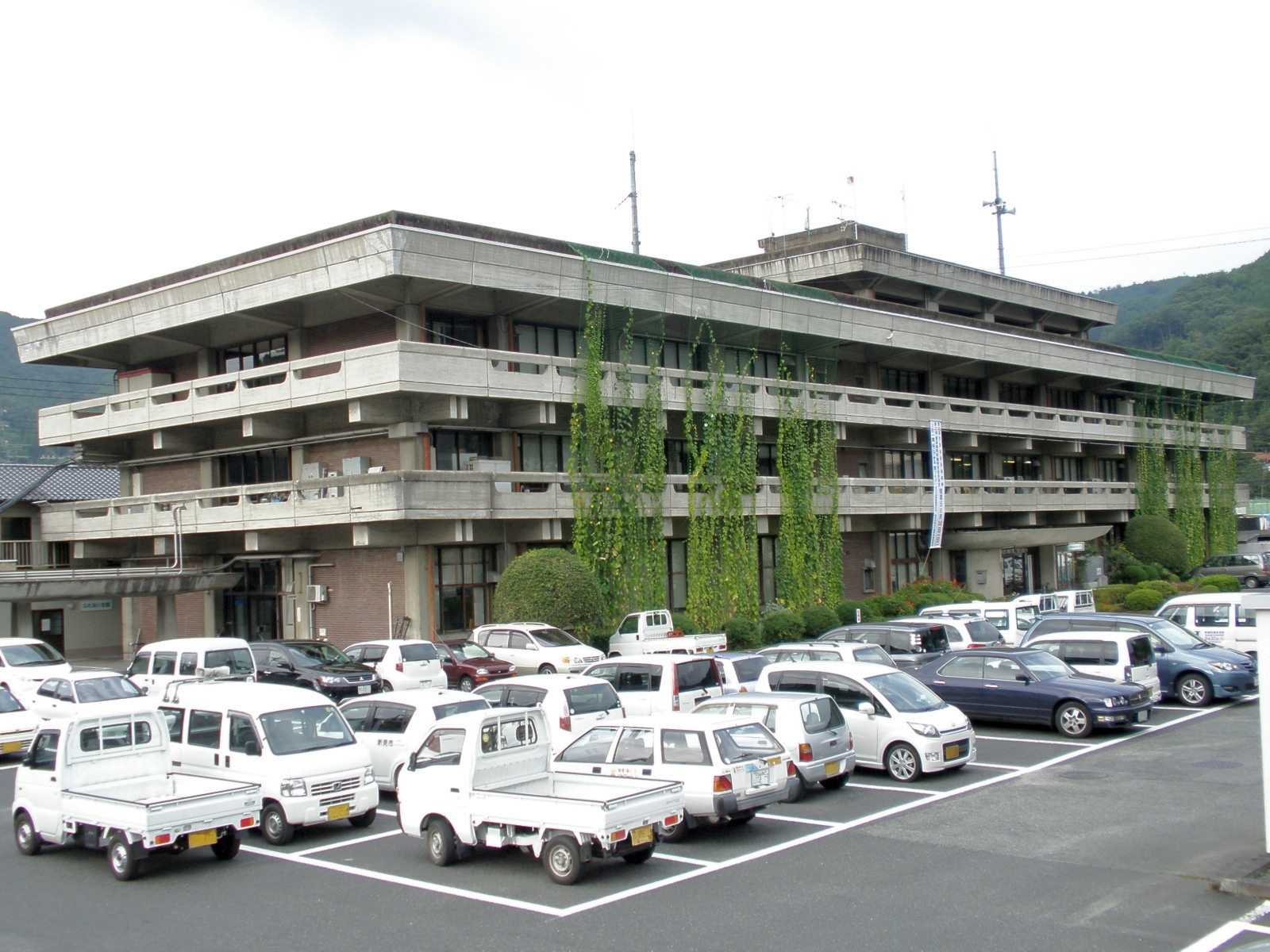 Niimi city office main building (Since February, 1962)